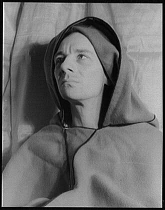 Portrait of John Gielgud (Item 2 of 3) by Carl Van Vechten